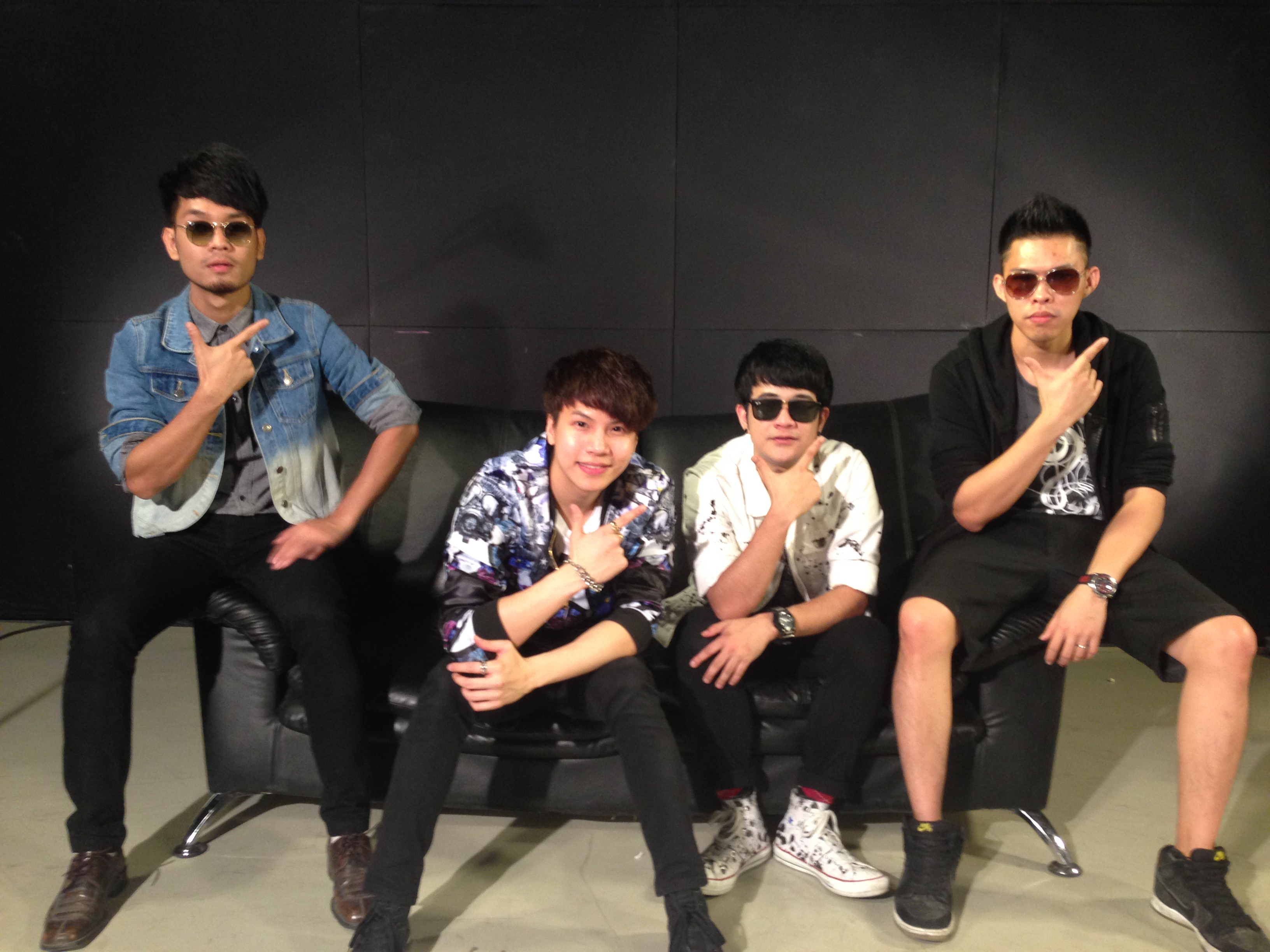 Morning soon at VERY TV.